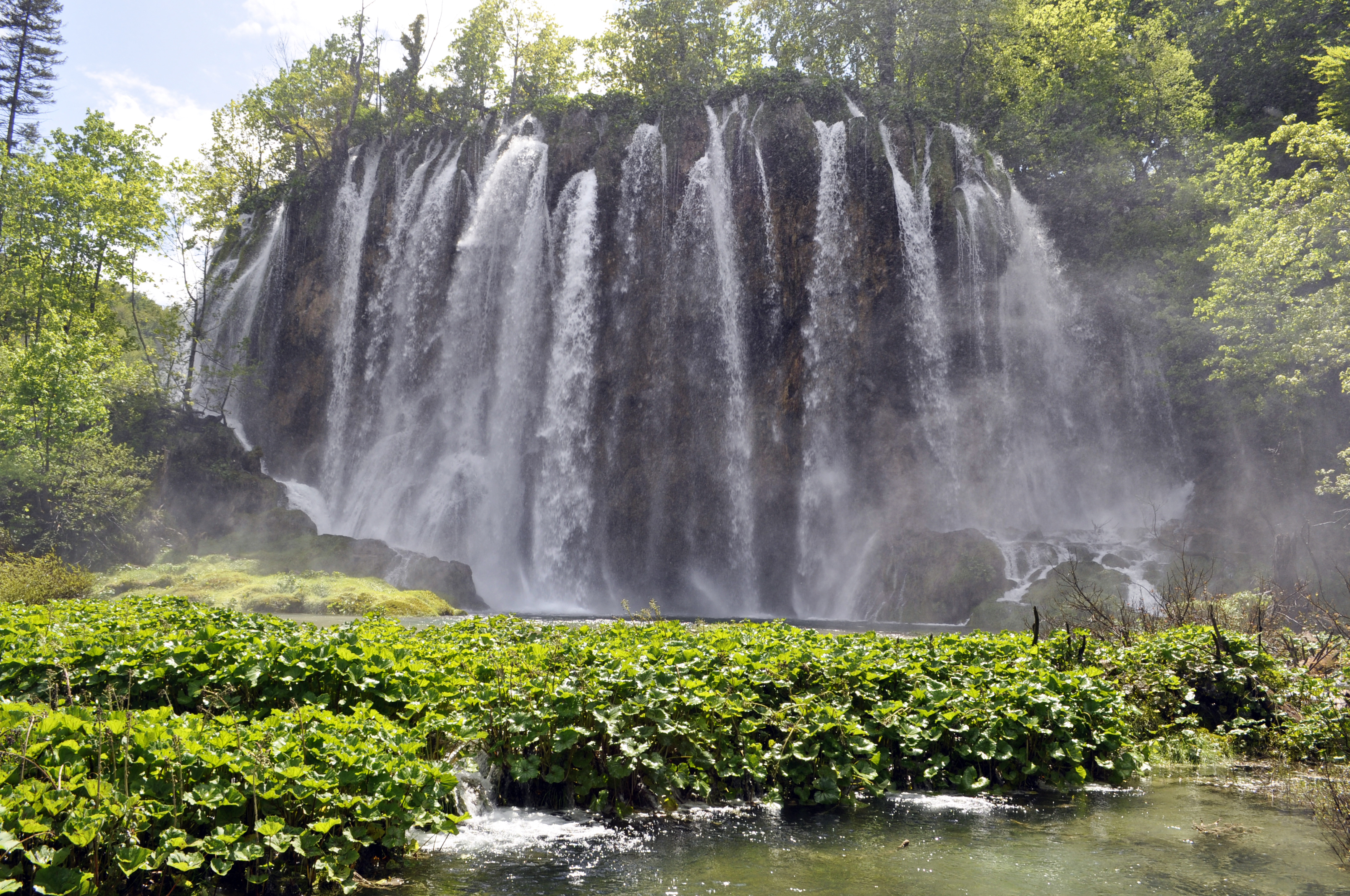 Amazing waterfalls in Plitvice Park